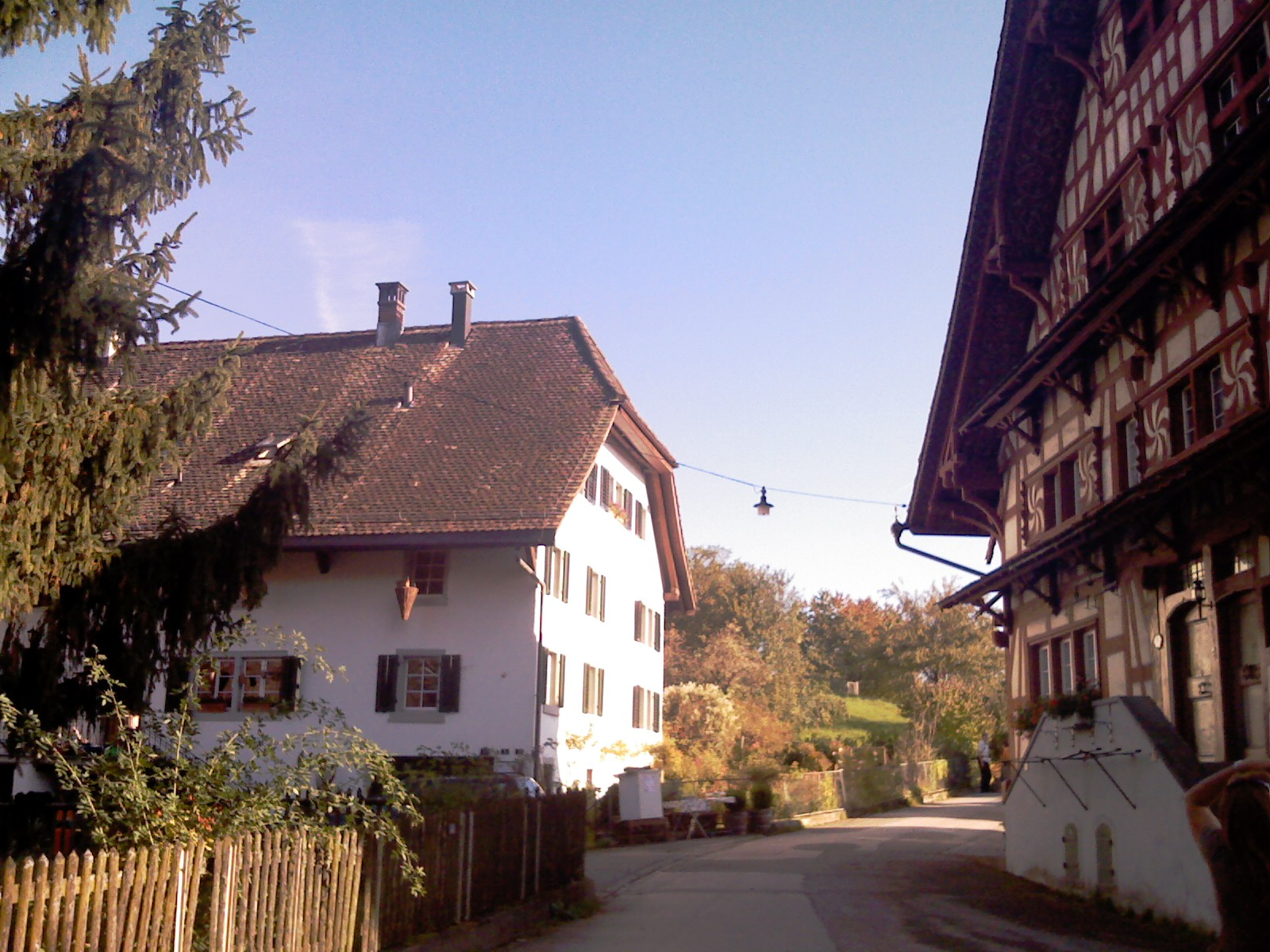 Lutikon at the board of Lützelsee, part of Hombrechtikon in Canton Zurich, SwitzerlandEsperanto: Lutikon cxe la bordo de la lageto Lützelsee, municipo de Hombrechtikon en Kantono Zuriko, Svislando